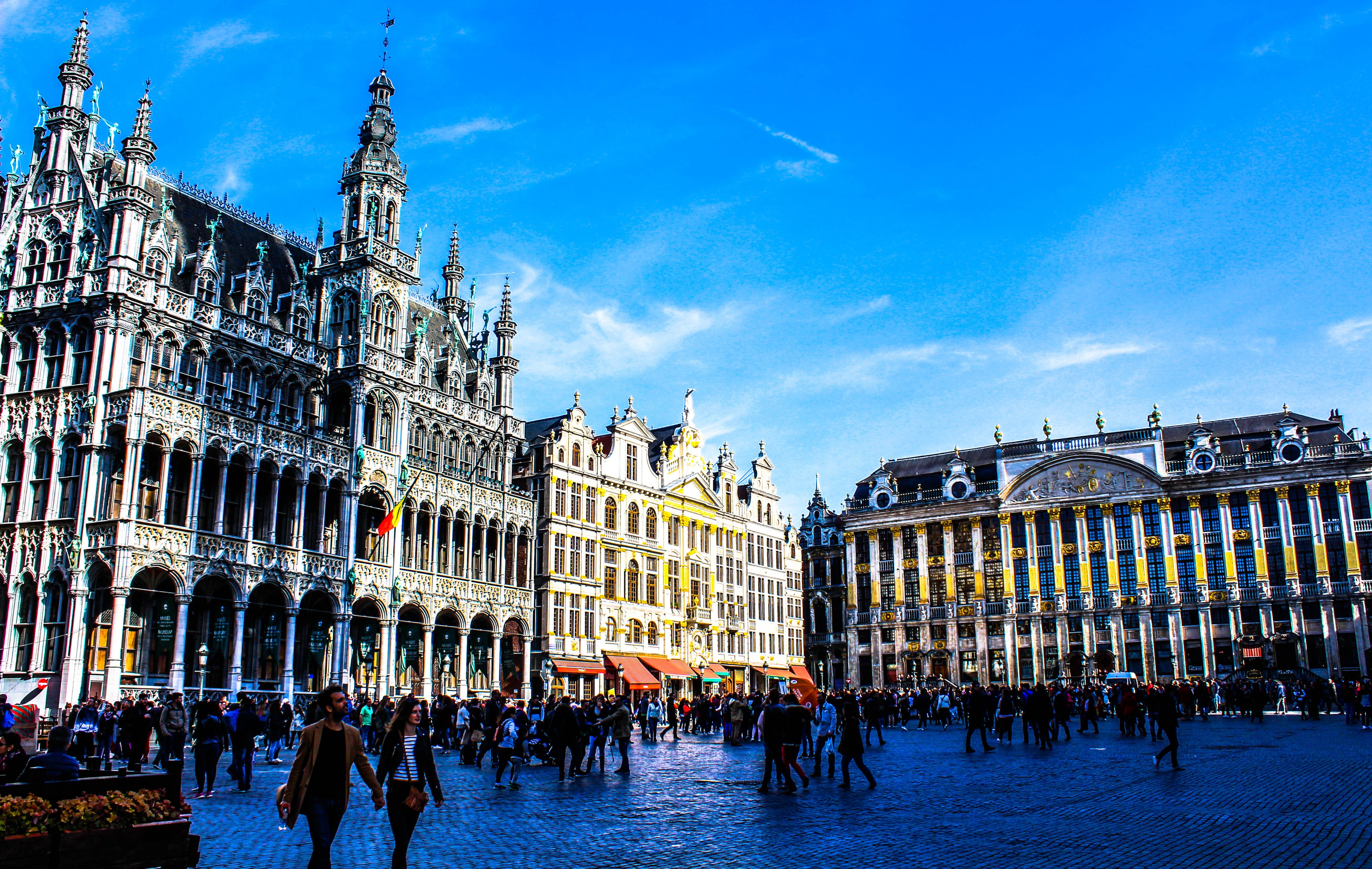 The Grand Place is the central square of Brussels. It is surrounded by opulent guildhalls and two larger edifices, the city's Town Hall and the Breadhouse building containing the Museum of the City of Brussels. The square is the most important tourist destination and most memorable landmark in Brussels